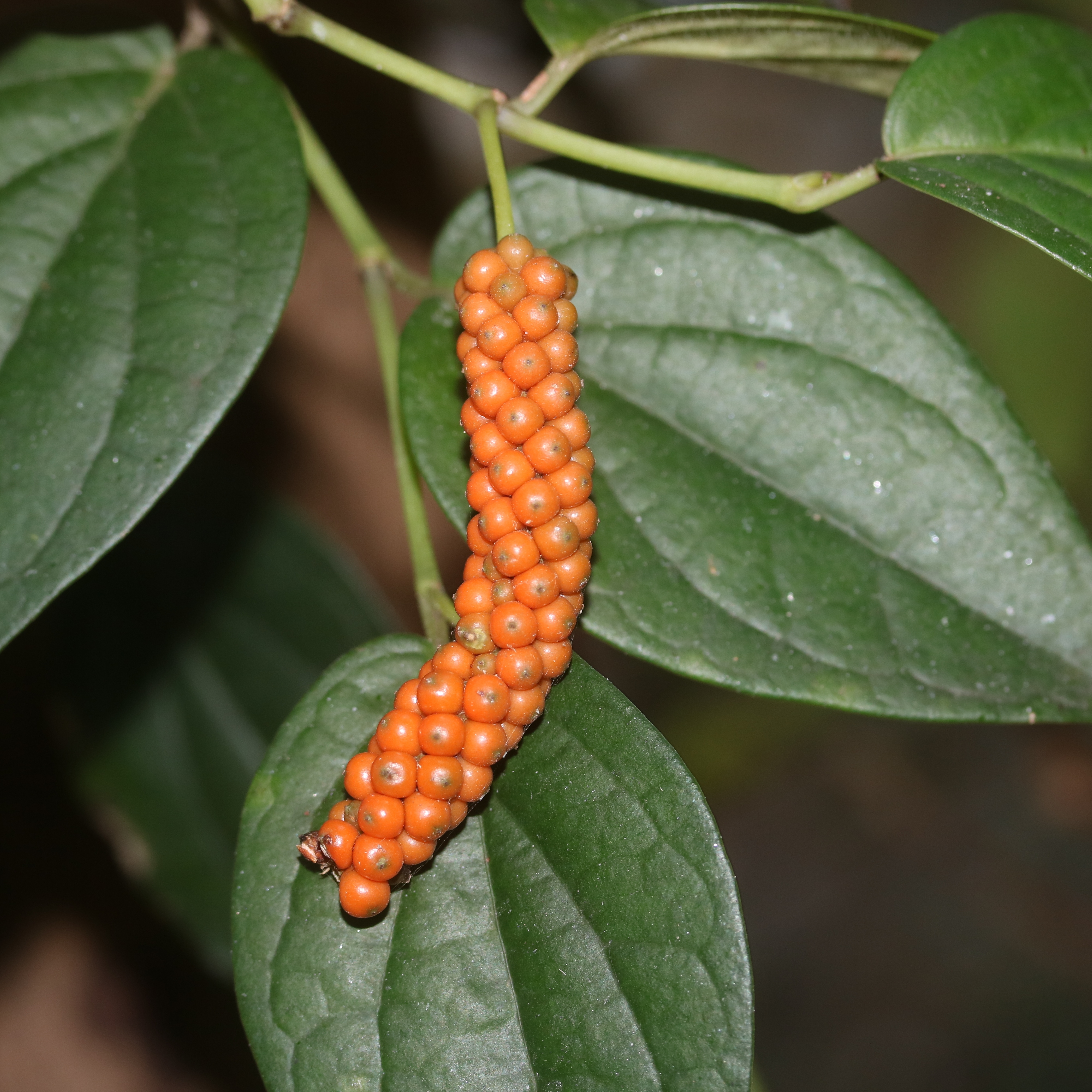 Piper kadsura in Mount Eboshi, Matsuzaki, Shizuoka Prefecture, Japan.